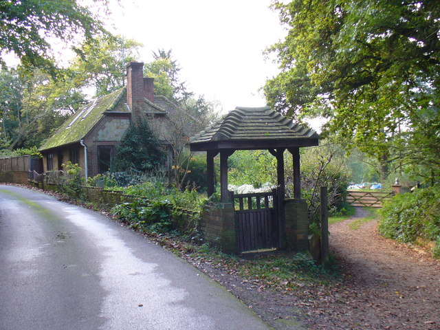 Milton Heath Cottage in the fork with road to left going to The Lake fishery and the path to the right going downhill, through deciduous woodland, to Keeper's Cottage.